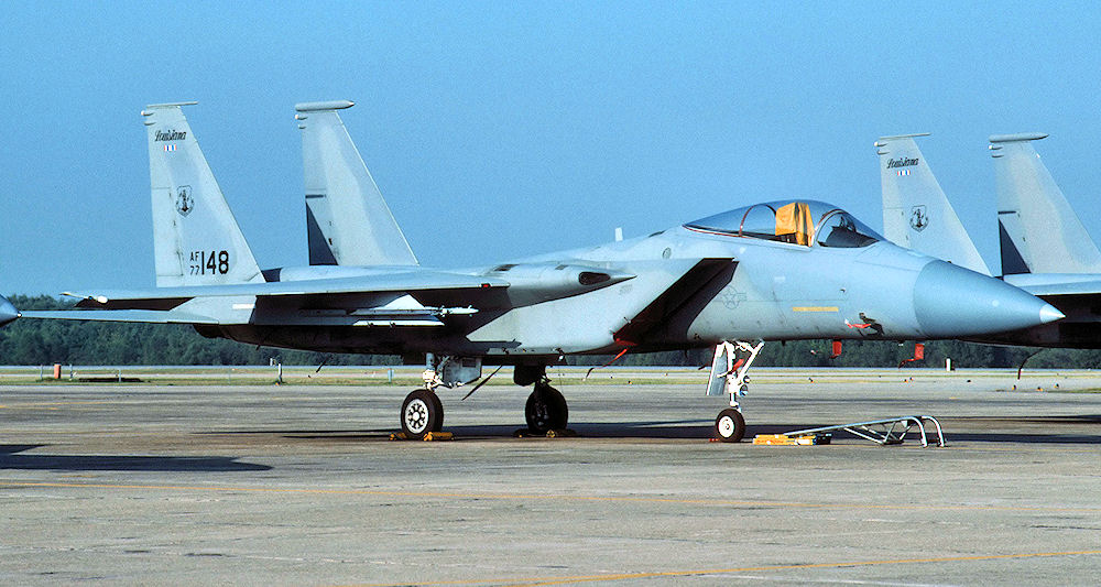 122d Tactical Fighter Squadron - McDonnell Douglas F-15A-20-MC Eagle 77-0148. Retired to AMARC as FH0163 Jun 21, 2007. Still on AMARC inventory Jan 15, 2008.